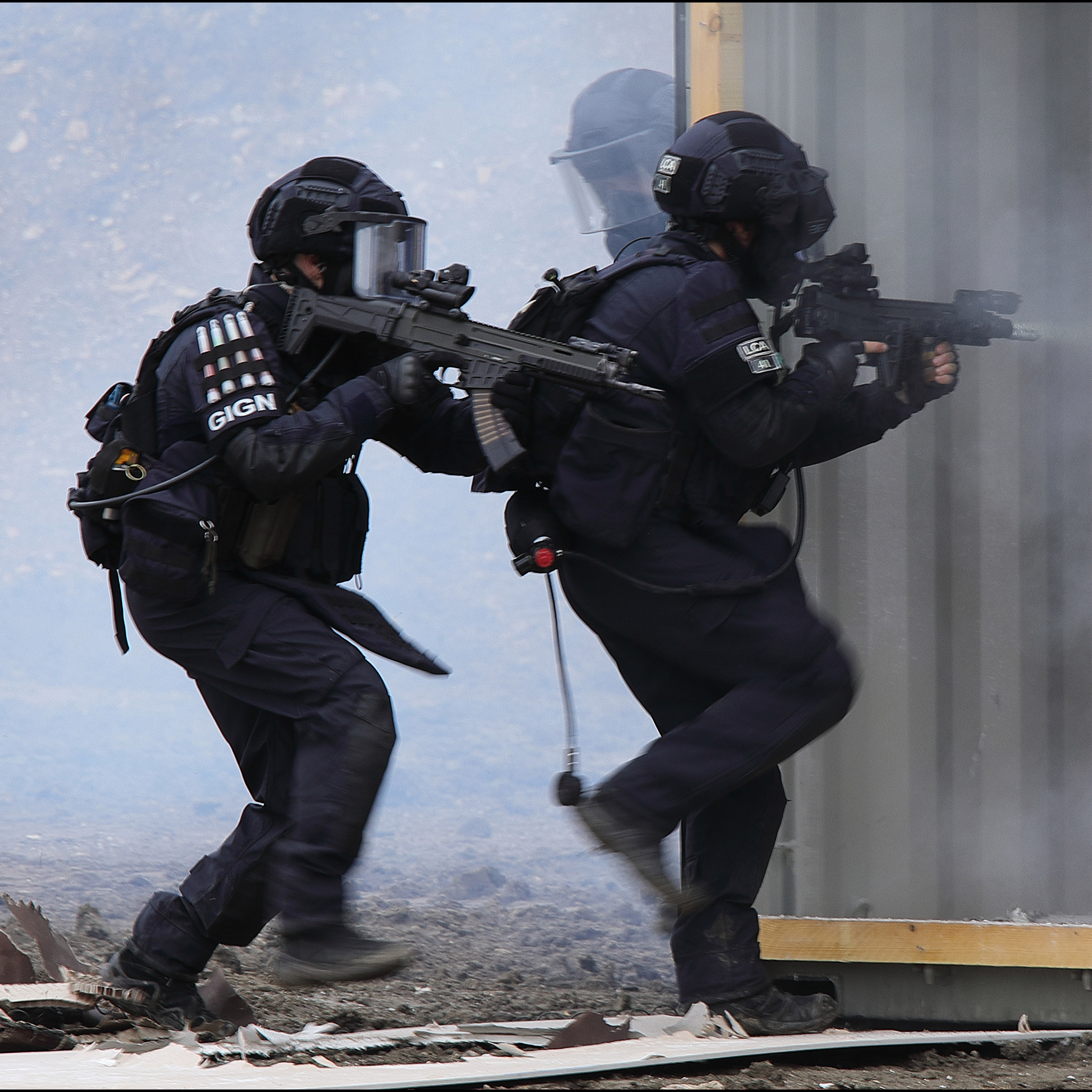 GIGN operators entering a building during a demo. June 2018